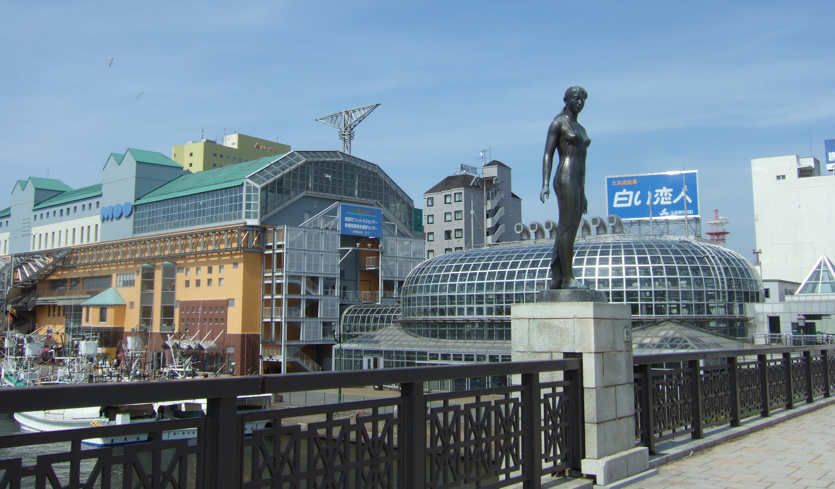 Nusamai Bridge Fisherman Wharf, Kushiro, Hokkaido.